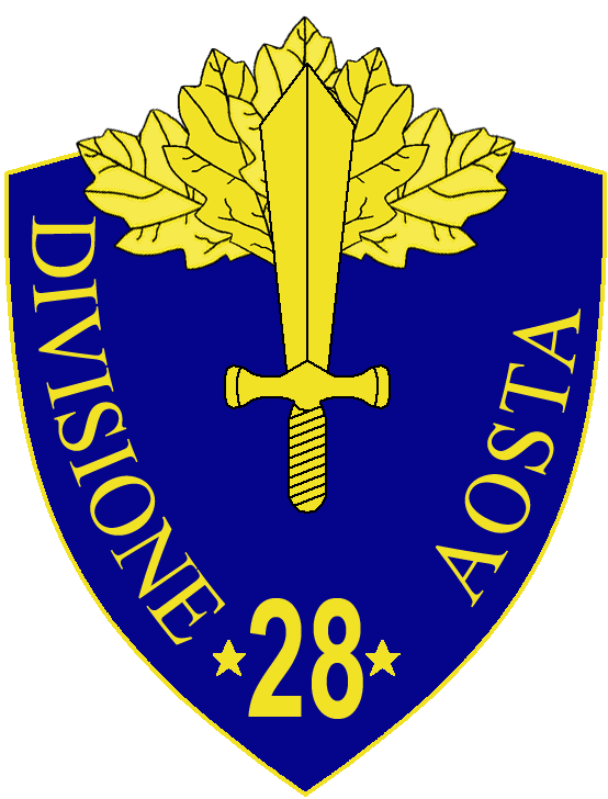 28a Divisione Fanteria Aosta insignia, Regio Esercito, Italy, WWII